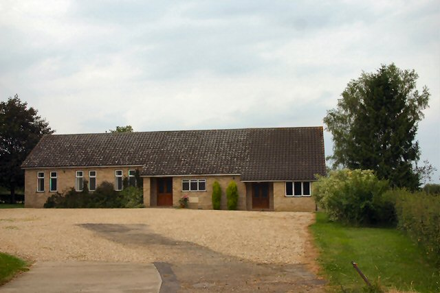 Lawshall Evangelical Free Church. Another American import.